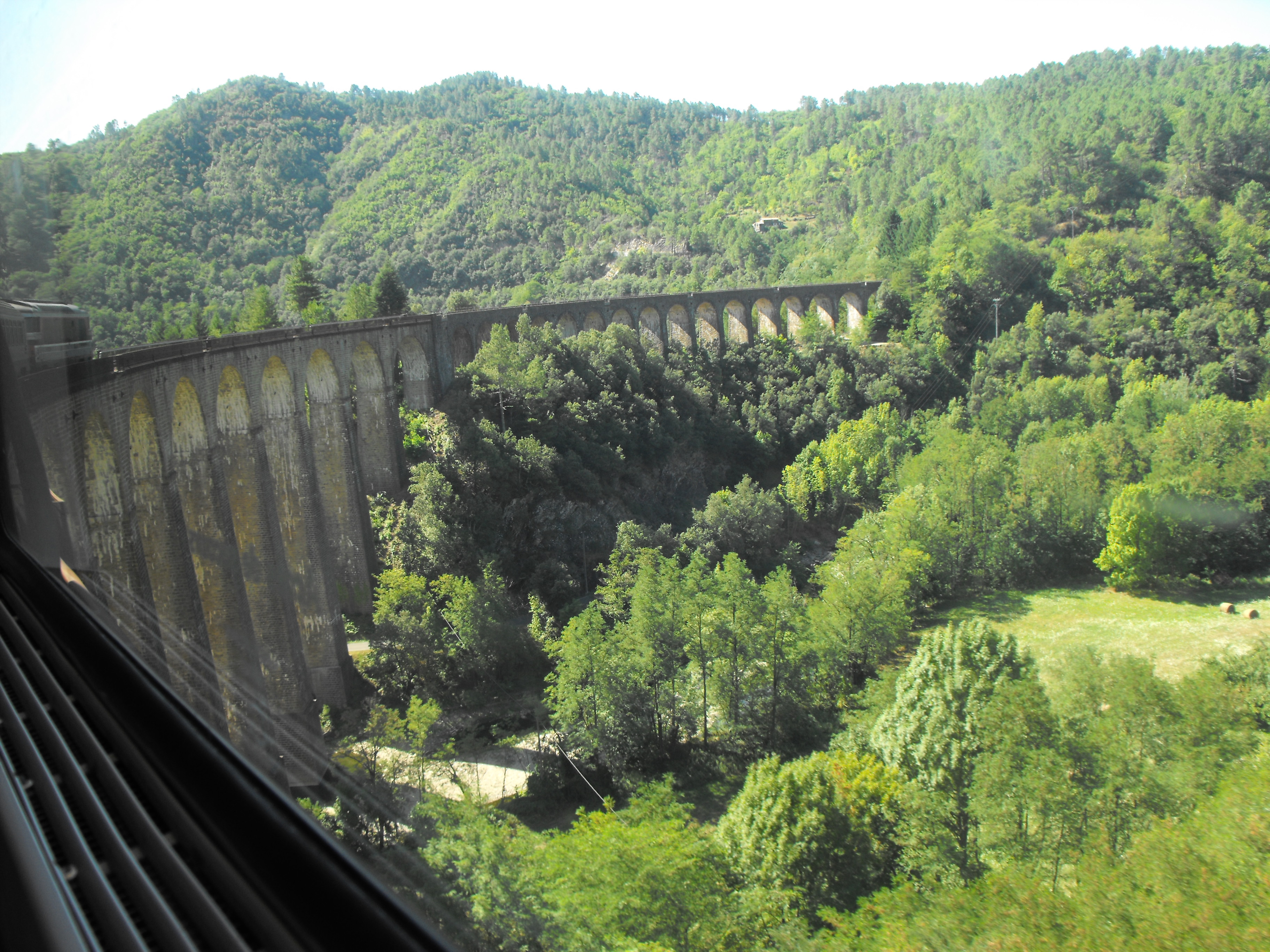 On the viaduct over the Luech river, heading towards Chamborigaud which stands slightly on the right of the picture.